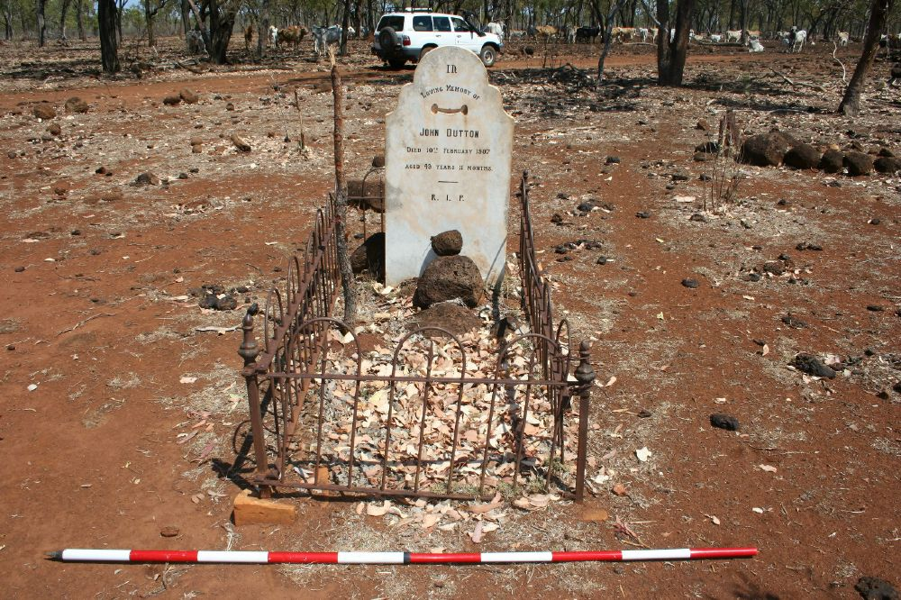 Quartz Hill Coach Change Station Site and Cemetery, grave of John Dutton